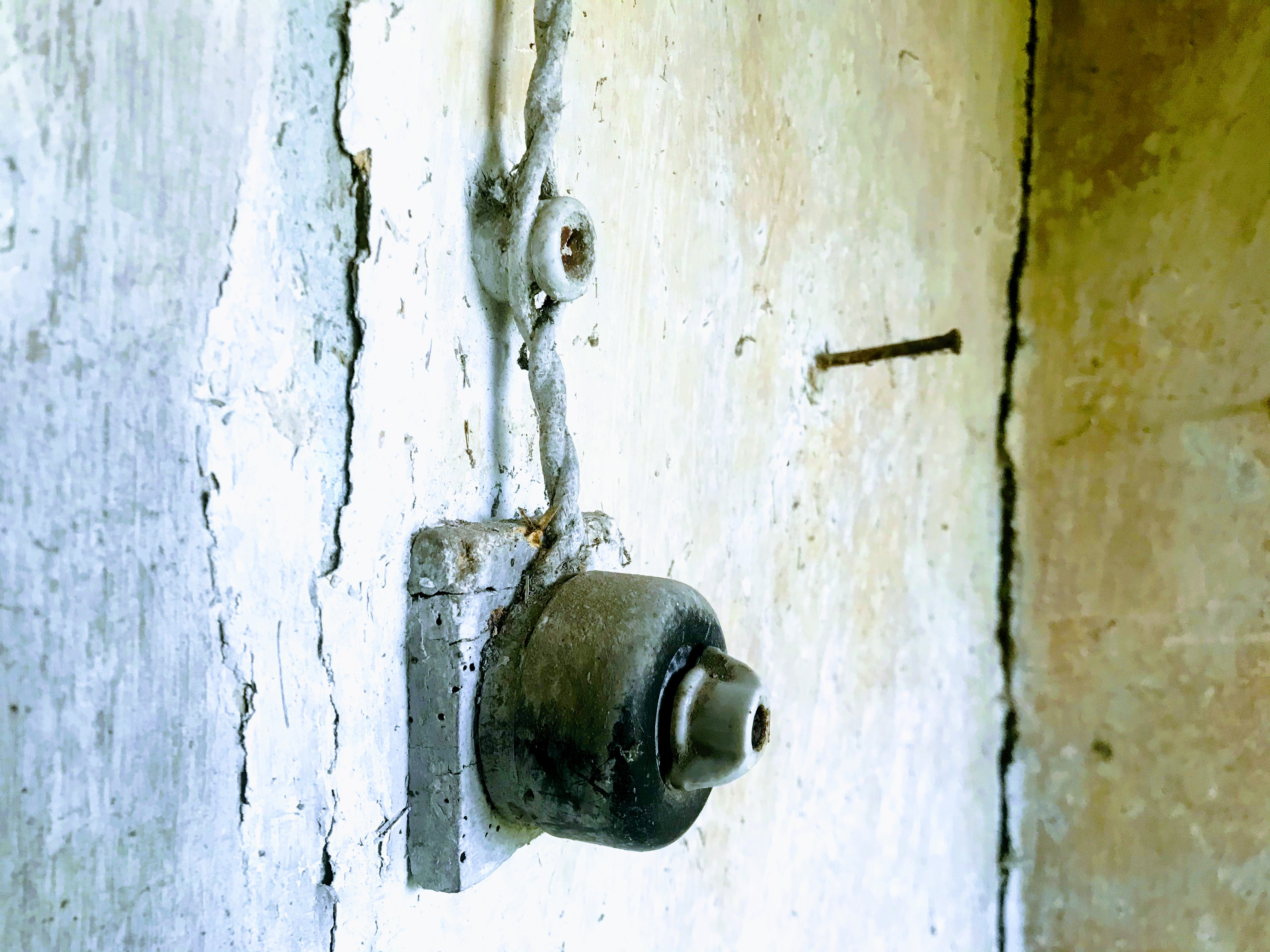 Electric wiring inside house on ceramic insulators that was extensively used in 1920-1940. Ukraine, Vinnytsia region Lany village.